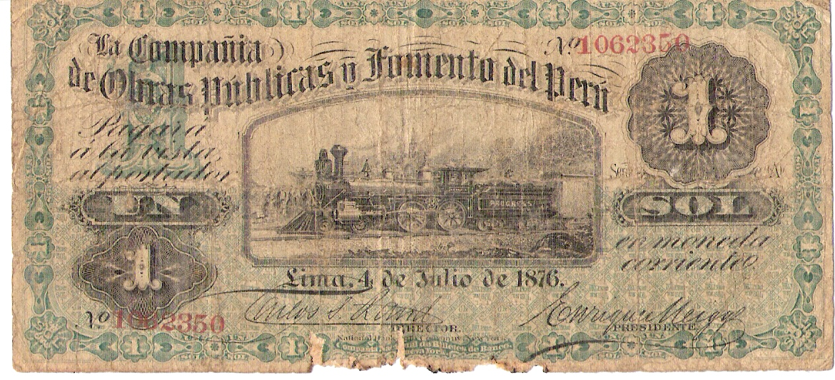 Paper Money